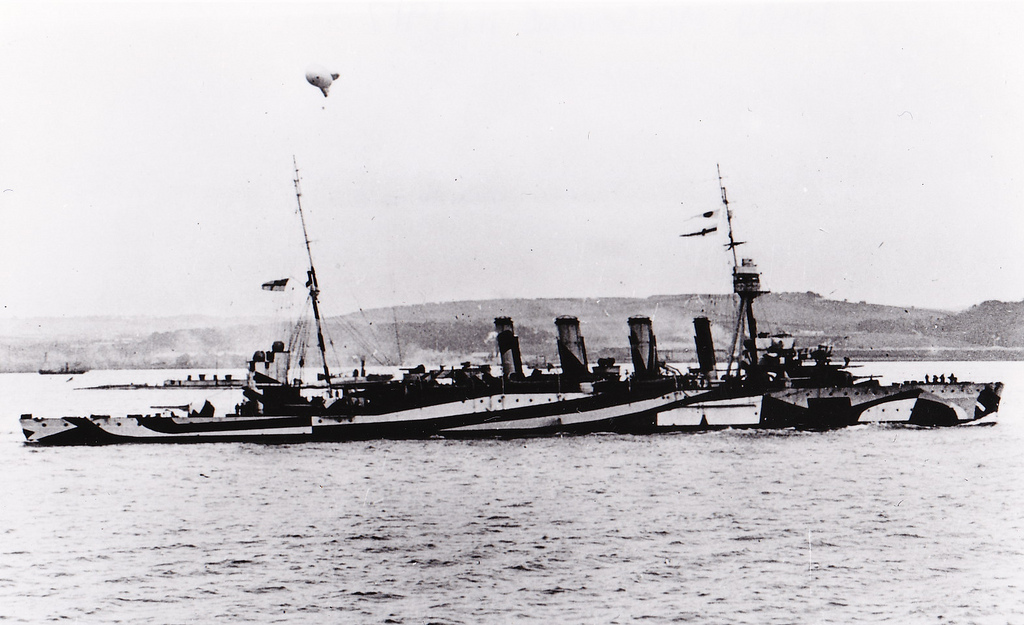 AWM caption : ROSYTH, SCOTLAND. C.1918. STARBOARD BROADSIDE VIEW OF THE CRUISER HMAS MELBOURNE (I) WHILE OPERATING WITH THE GRAND FLEET. THE SHIP HAS BEEN PAINTED IN A DAZZLE CAMOUFLAGE SCHEME. A SOPWITH CAMEL FIGHTER IS CARRIED ON A LAUNCHING PLATFORM FITTED OVER HER FORWARD 6 INCH GUN. OTHER WARTIME ALTERATIONS TO HER APPEARANCE INCLUDE THE REPLACEMENT OF HER POLE FOREMAST BY A TRIPOD TO WHICH A DIRECTOR TOWER HAS BEEN FITTED. THE HEIGHT OF THE MASTS HAS BEEN REDUCED. SEARCHLIGHT TOWERS HAVE BEEN FITTED AMIDSHIPS AND AFT. A 3INCH AA GUN IS SITUATED ON A PLATFORM BETWEEN AFTER FUNNEL AND THE MAINMAST. NOTE THE LARGE K CLASS STEAM POWERED SUBMARINE IN THE BACKGROUND. (NAVAL HISTORICAL COLLECTION)